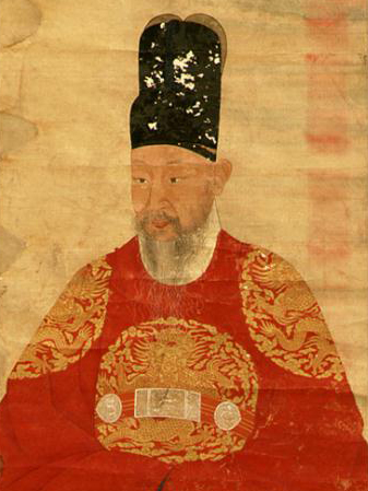 Royal painting of Yeongjo the great, King of Joseon/Korea, Treasure No. 932, National Palace Museum.